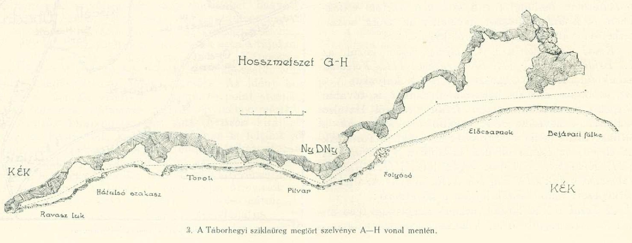 Map of Tábor-hegyi Cave.